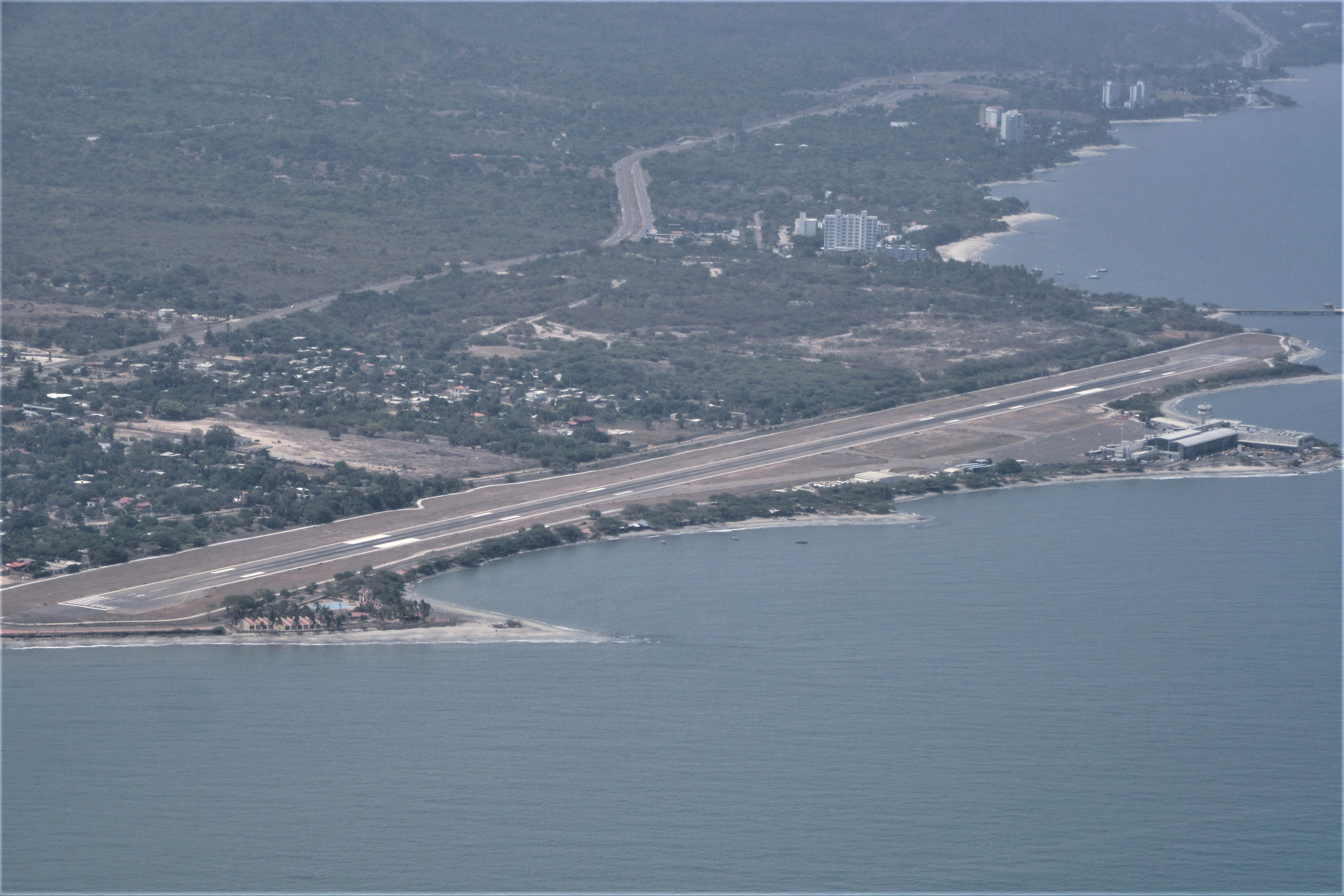 Pista de aterizaje del Aeropuerto Simón Bolívar de Santa Marta